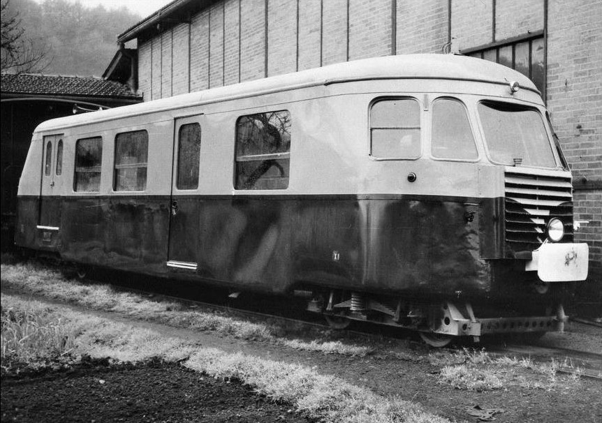 Transcorrézien - Autorail Billard A 80 D n° X 1 au dépôt fe Tulle